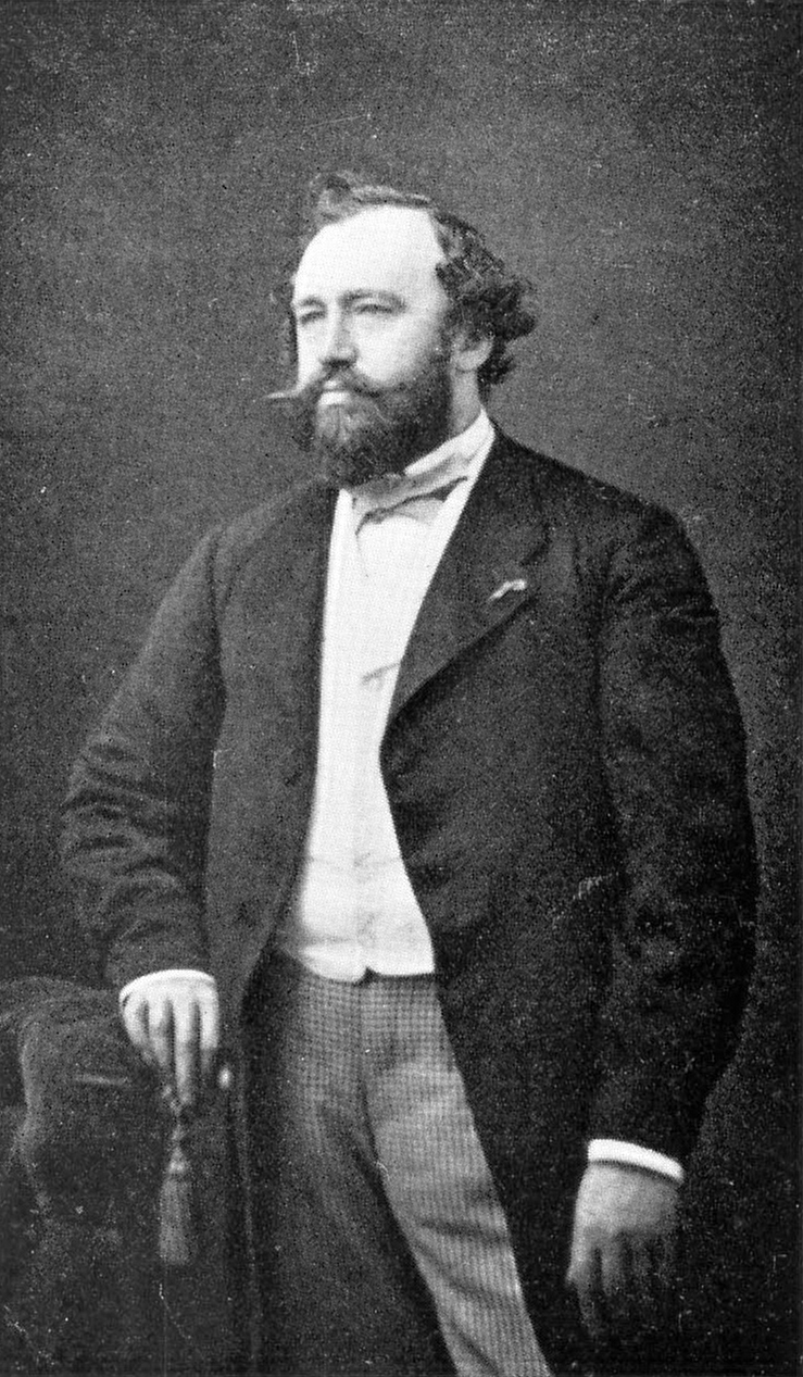 Adolphe Sax (1814-1894), inventor of the saxophone